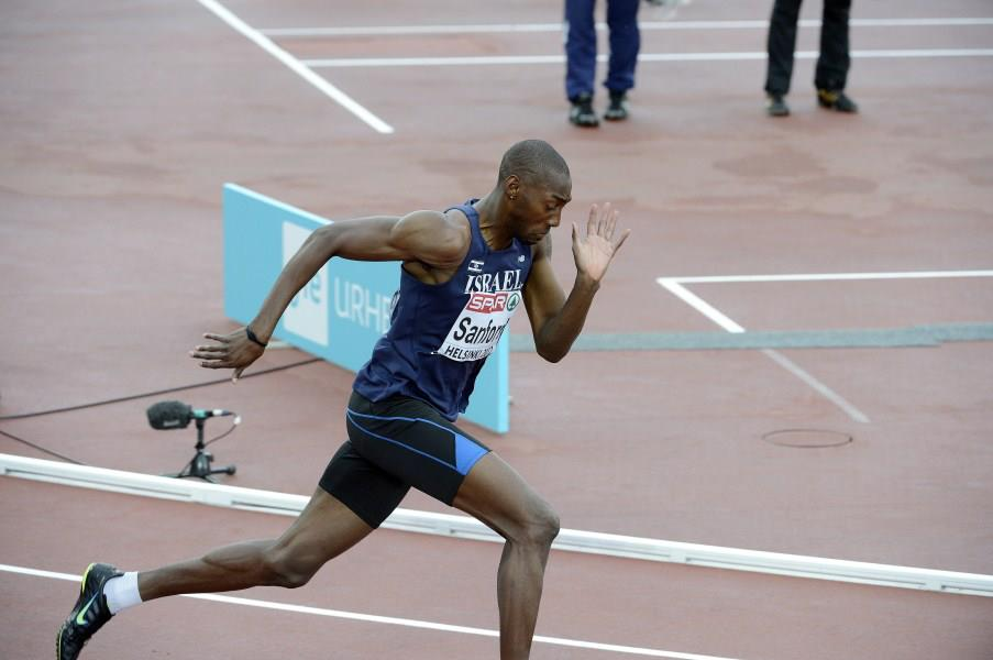 Donald Sanford finishing 4th at European Championships in Helsinki